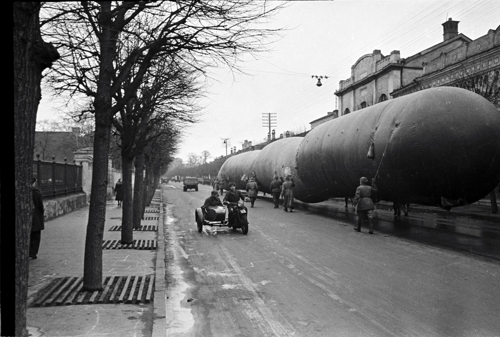 “Refill gas balloons for barrage balloons in Moscow”. Refill gas balloons for barrage balloons in Moscow.